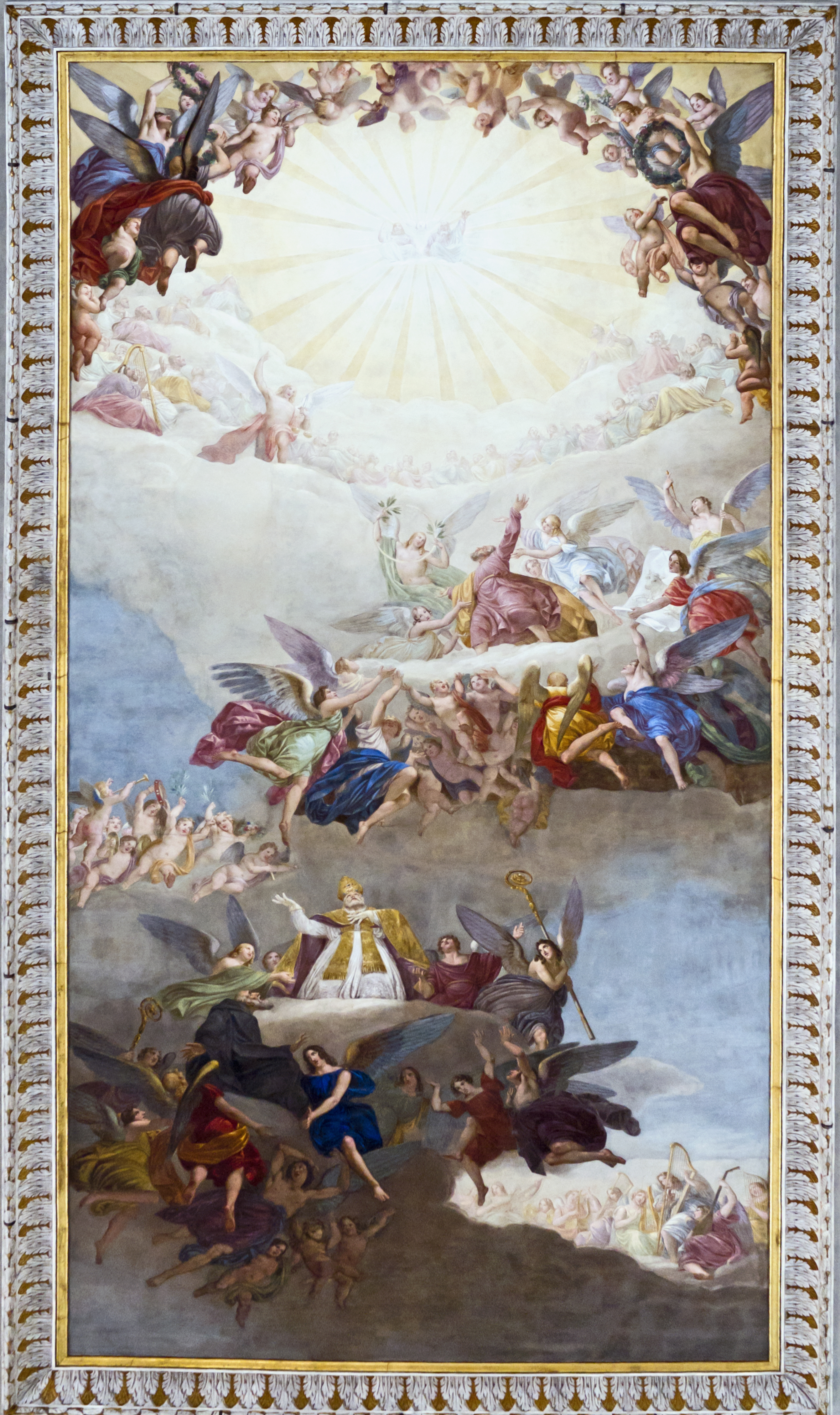 Church of San Luca Evangelista in Venice. The ceiling depicting St. Luke work of Sebastiano Santi - 1832